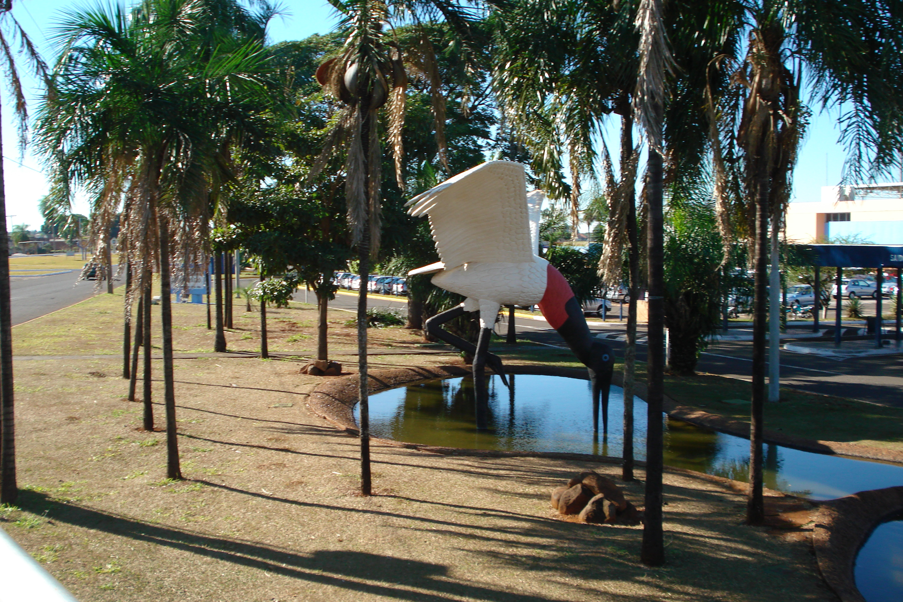 International Airport of Campo Grande